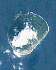 Landsat picture of Toshima Island, Izu islands, Japan